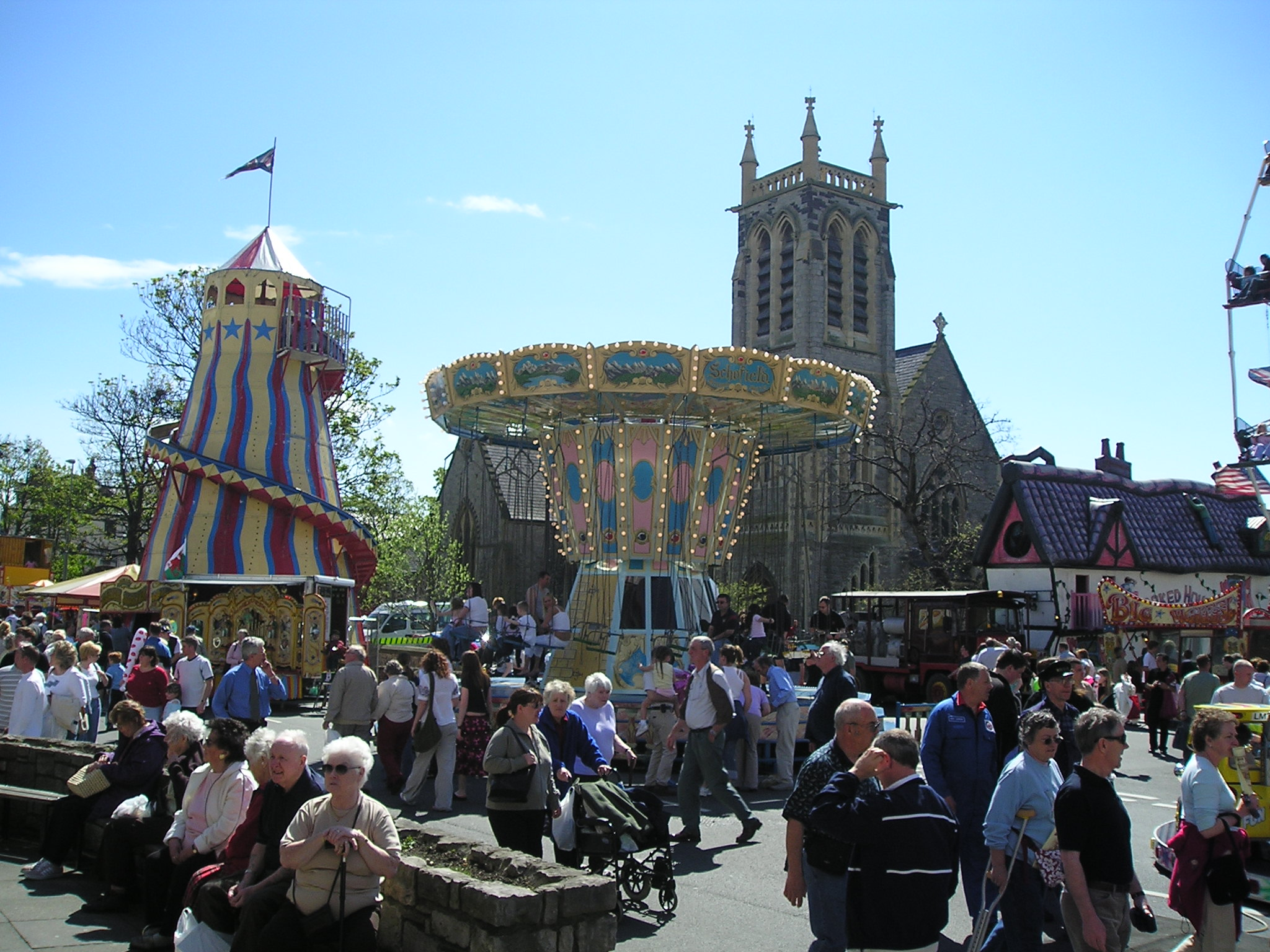 Victorian Extravaganza, Trinity Square, Llandudno. Taken by me, Noel Walley on 01/05/2005